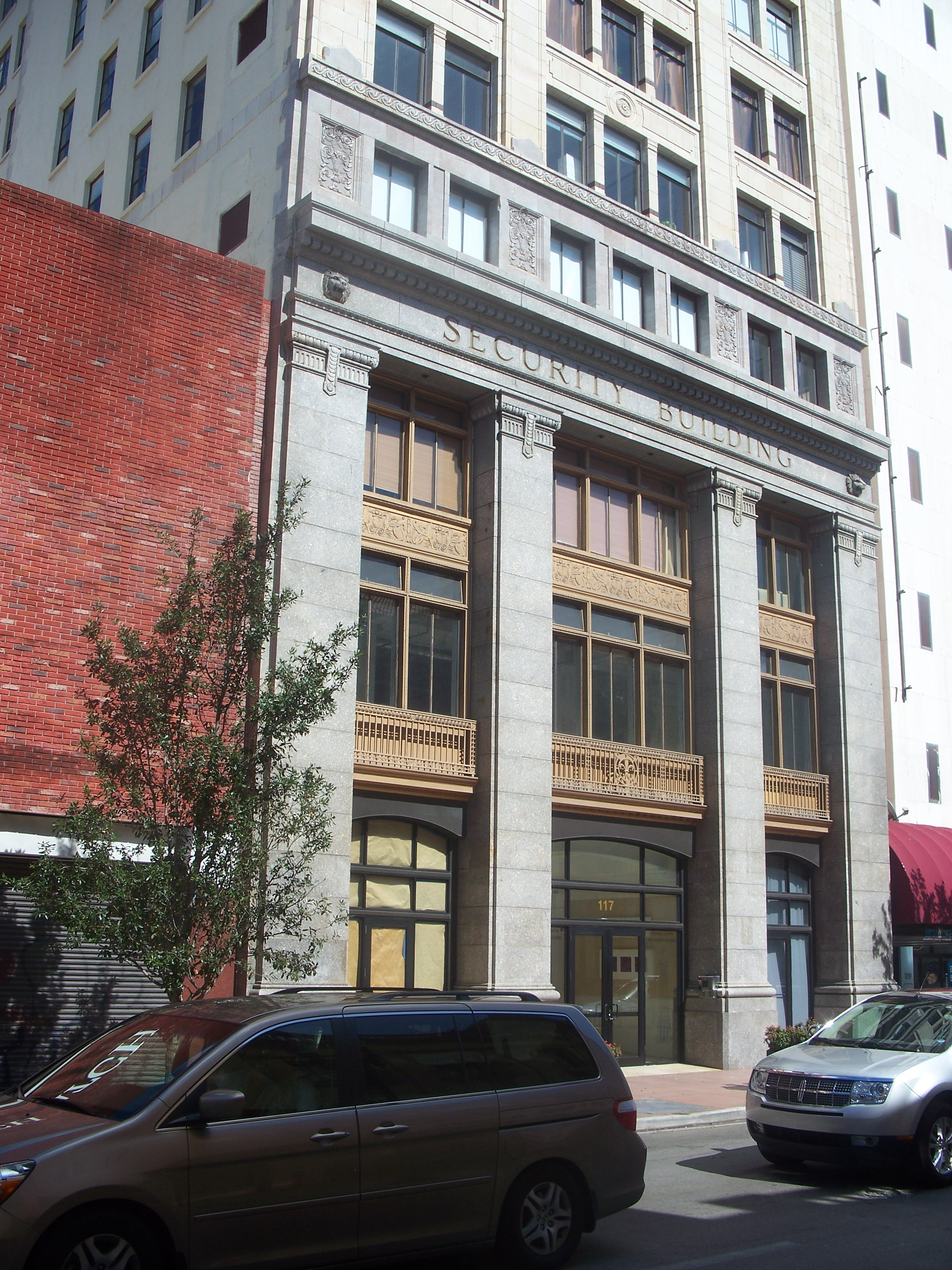 Miami, Florida: Downtown Miami Historic District: Security Building